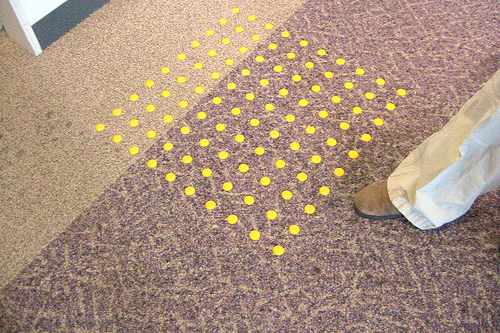 Floor marker for people with disabilities in Narita Airport, Japan